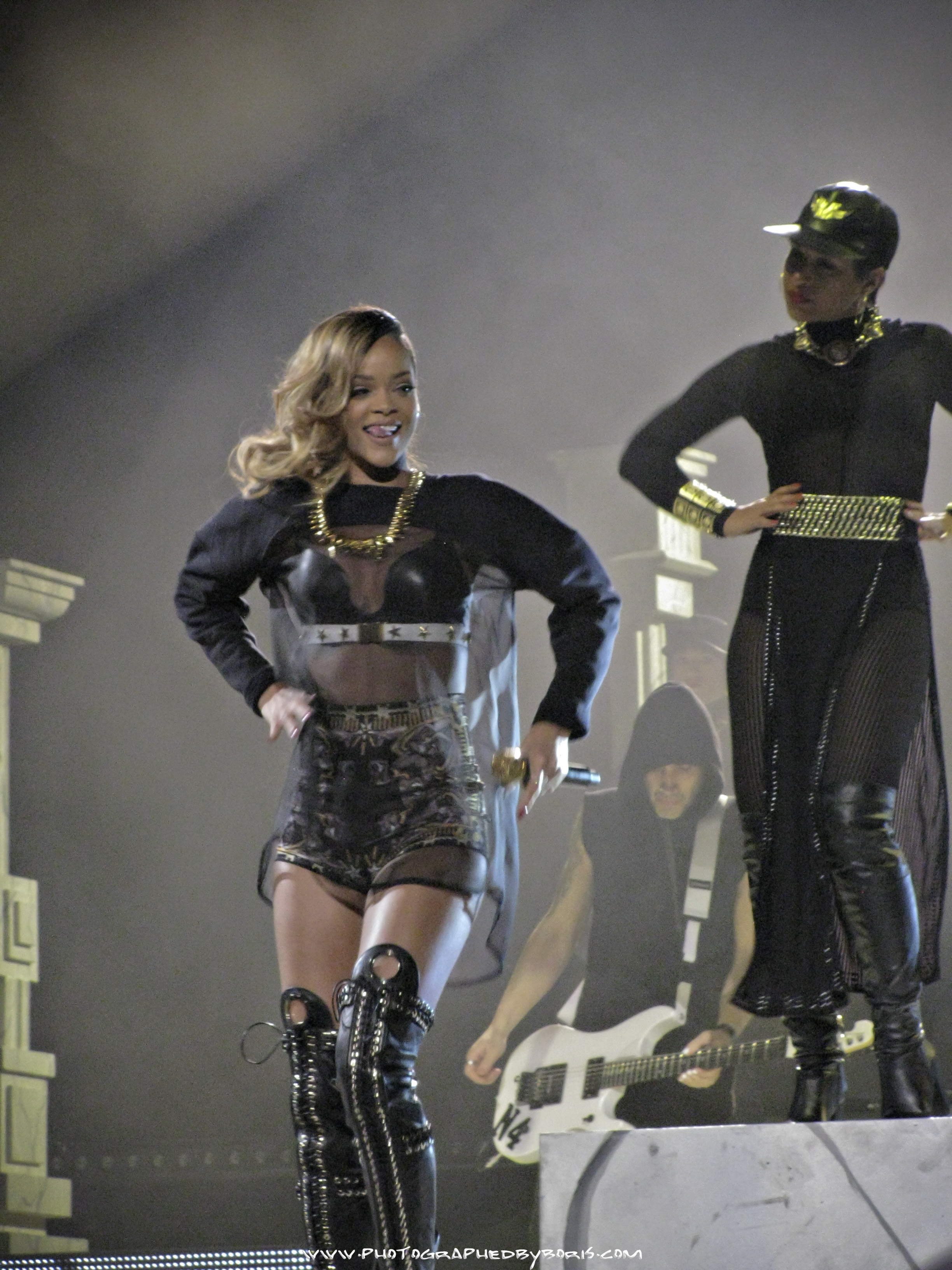 Rihanna at the Air Canada Centre